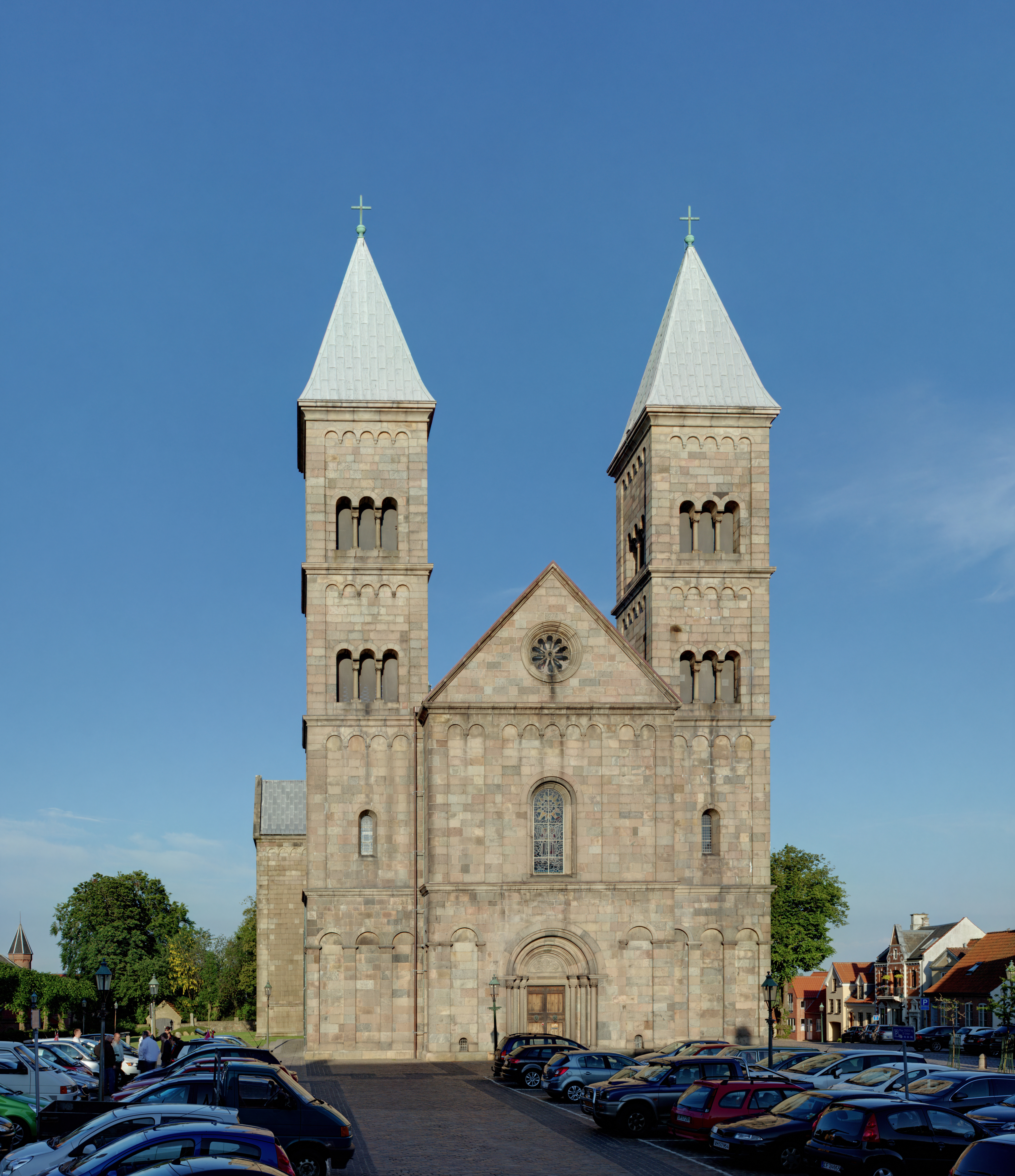 Viborg Cathedral as viewed while standing on the stairs of the main entrance to Latinerskolen.